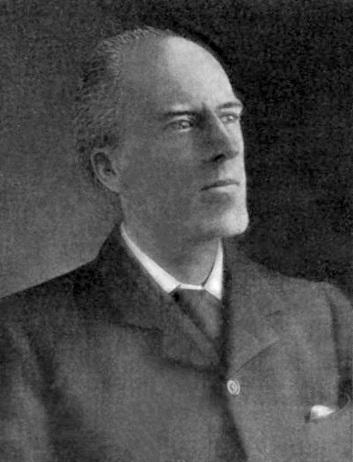 1912 photograph of Karl Pearson, English mathematician and eugenicist. Caption: "KARL PEARSON - Equally distinguished as mathematician, lecturer, writer, and organizer of statistical research"